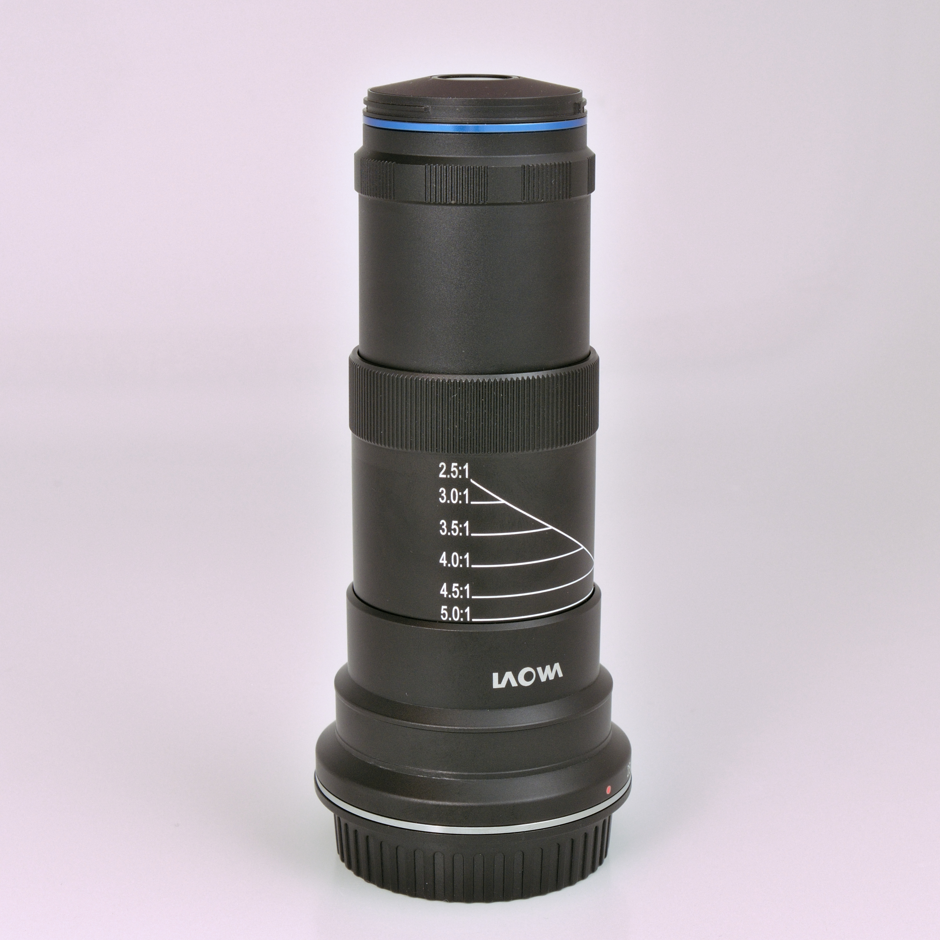 Venus Optics Laowa 25 mm f/2.8 2.5:1-5:1 ultra macro lens, 5:1 setting, version Canon EF-Mount